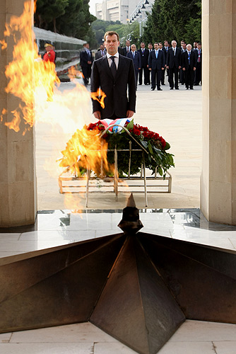 BAKU. At the monument to fallen heroes.